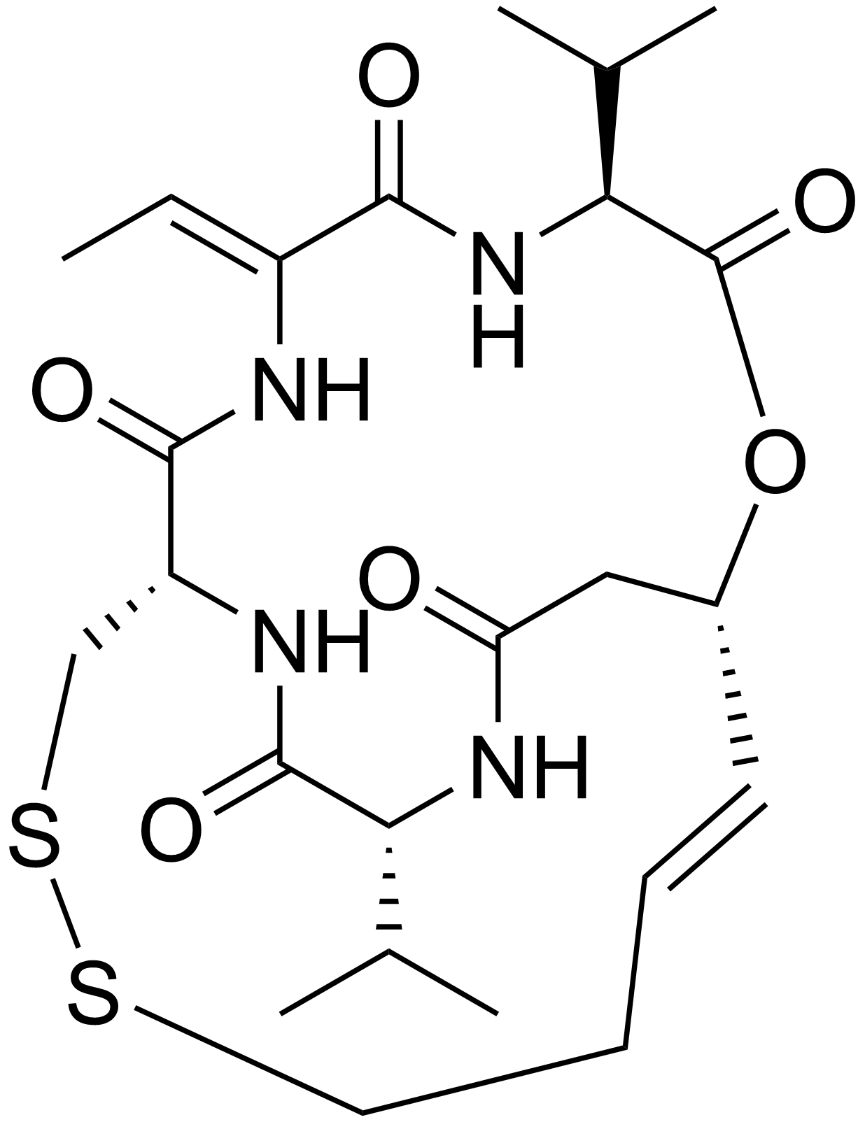 Chemical structure of romidepsin (FK228; FR901228; Istodax)